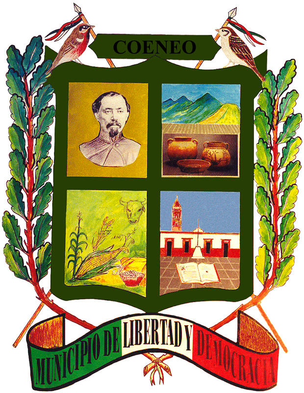 Shield of Coeneo